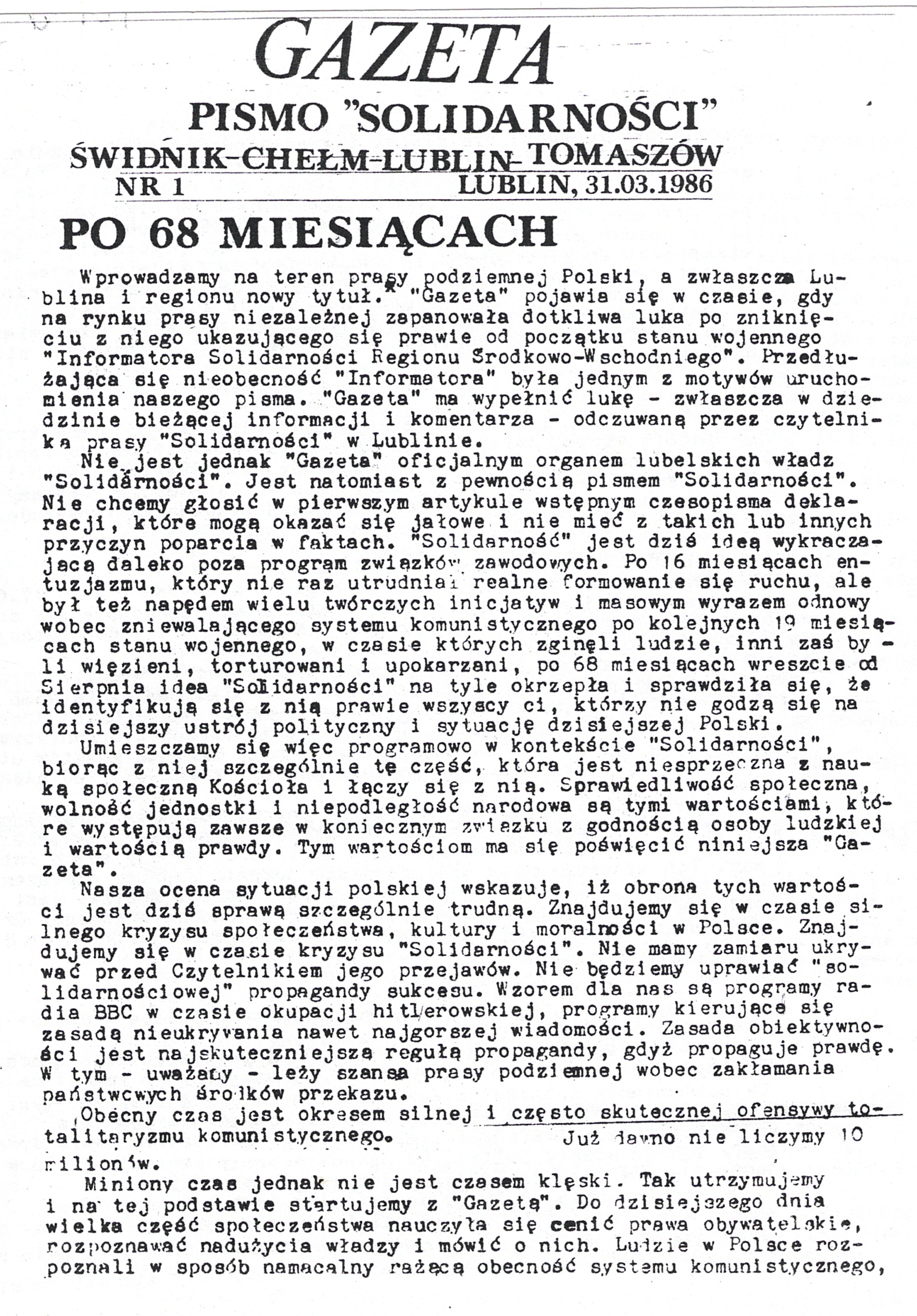 The first page of the first issue of Gazeta poza wszelką cenzurą